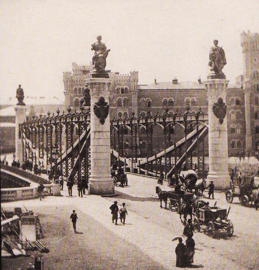 Maria-Theresia-Bridge Vienna, 1874